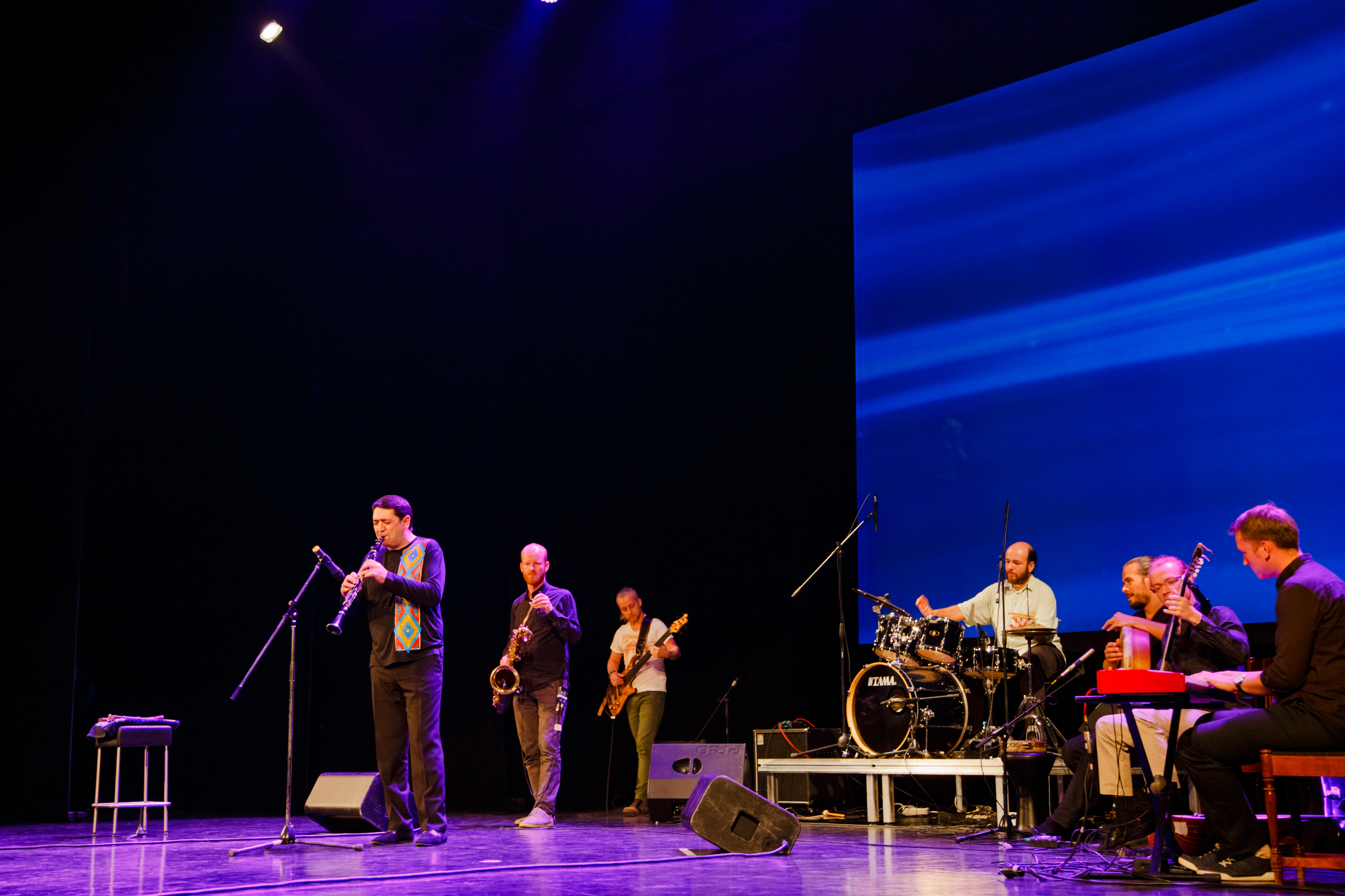 Norayr Barsegyan and Seven Eight Band.